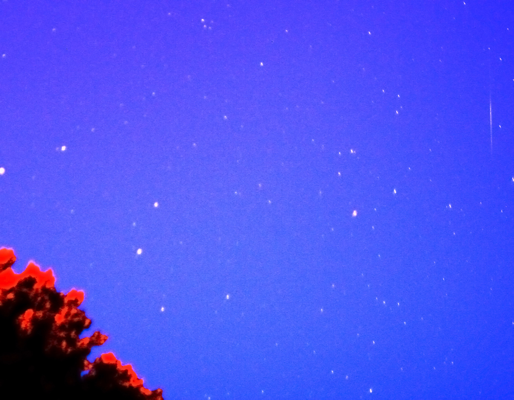 Quadrantid meteor is bright enough to be seen at twilight